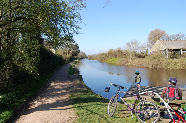 Chichester Ship Canal Here the canal runs west to Birdham and then through a dredged channel through Chichester Harbour. To the east are the remains of the old barge canal between Hunston and Ford.